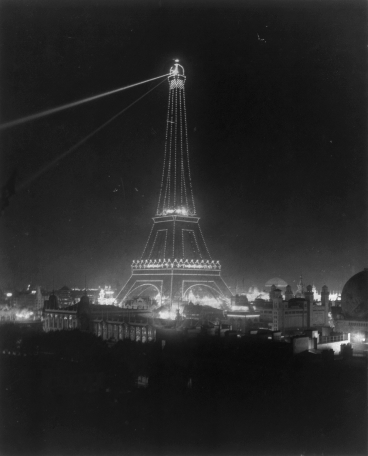 The Eiffel Tower at night during the 1900 Exposition.